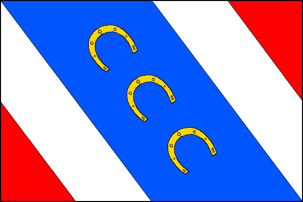 Municipal flag of Horoměřice village, Prague-West District, Czech Republic.